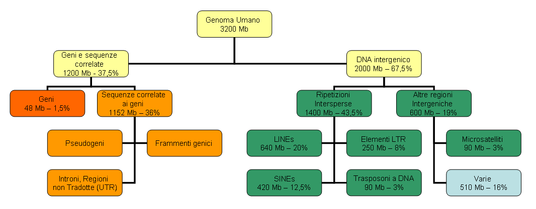 Composition of Human Genome (Italian)